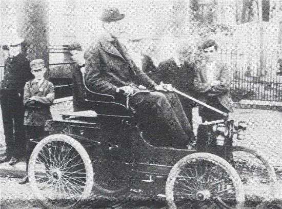 Perry Okey from Columbus, OH driving his 1898 single cylinder runabout.